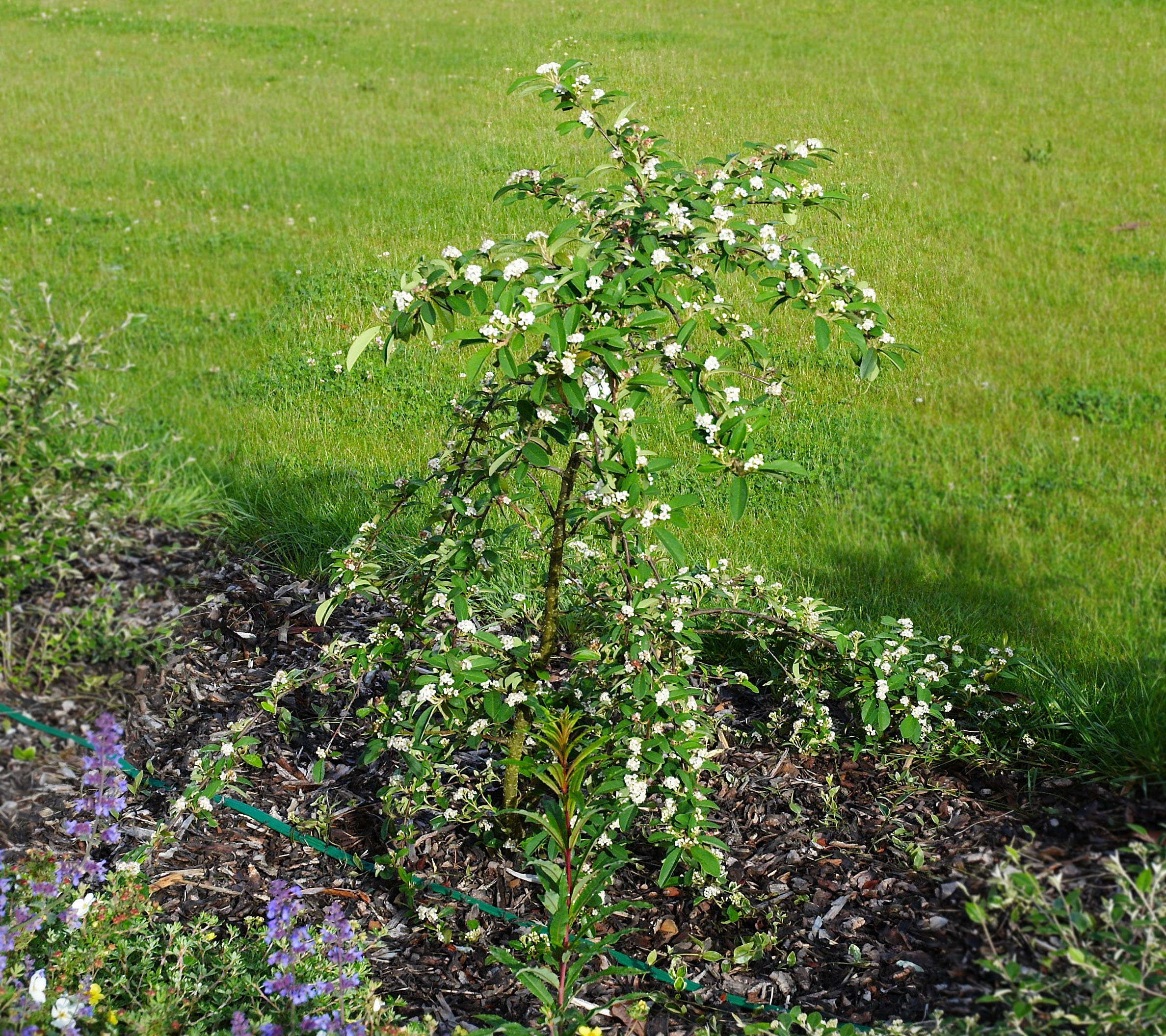 Cotoneaster × watereri 'Pendulus' Other photos of the same plant Cotoneaster × watereri C.jpg Cotoneaster × watereri D.jpg Cotoneaster × watereri E.jpg Cotoneaster × watereri F.jpg Cotoneaster × watereri G.jpg